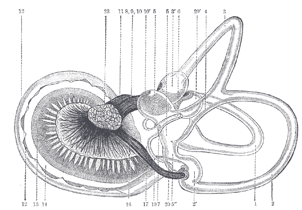 The same from the postero-medial aspect. 1. Lateral semicircular canal; 1’, its ampulla; 2. Posterior canal; 2’, its ampulla. 3. Superior canal; 3’, its ampulla. 4. Conjoined limb of superior and posterior canals (sinus utriculi superior). 5. Utricle. 5’. Recessus utriculi. 5”. Sinus utriculi posterior. 6. Ductus endolymphaticus. 7. Canalis utriculosaccularis. 8. Nerve to ampulla of superior canal. 9. Nerve to ampulla of lateral canal. 10. Nerve to recessus utriculi (in Fig. 925, the three branches appear conjoined). 10’. Ending of nerve in recessus utriculi. 11. Facial nerve. 12. Lagena cochleæ. 13. Nerve of cochlea within spiral lamina. 14. Basilar membrane. 15. Nerve fibers to macula of saccule. 16. Nerve to ampulla of posterior canal. 17. Saccule. 18. Secondary membrane of tympanum. 19. Canalis reuniens. 20. Vestibular end of ductus cochlearis. 23. Section of the facial and acoustic nerves within internal acoustic meatus (the separation between them is not apparent in the section). (G. Retzius.)